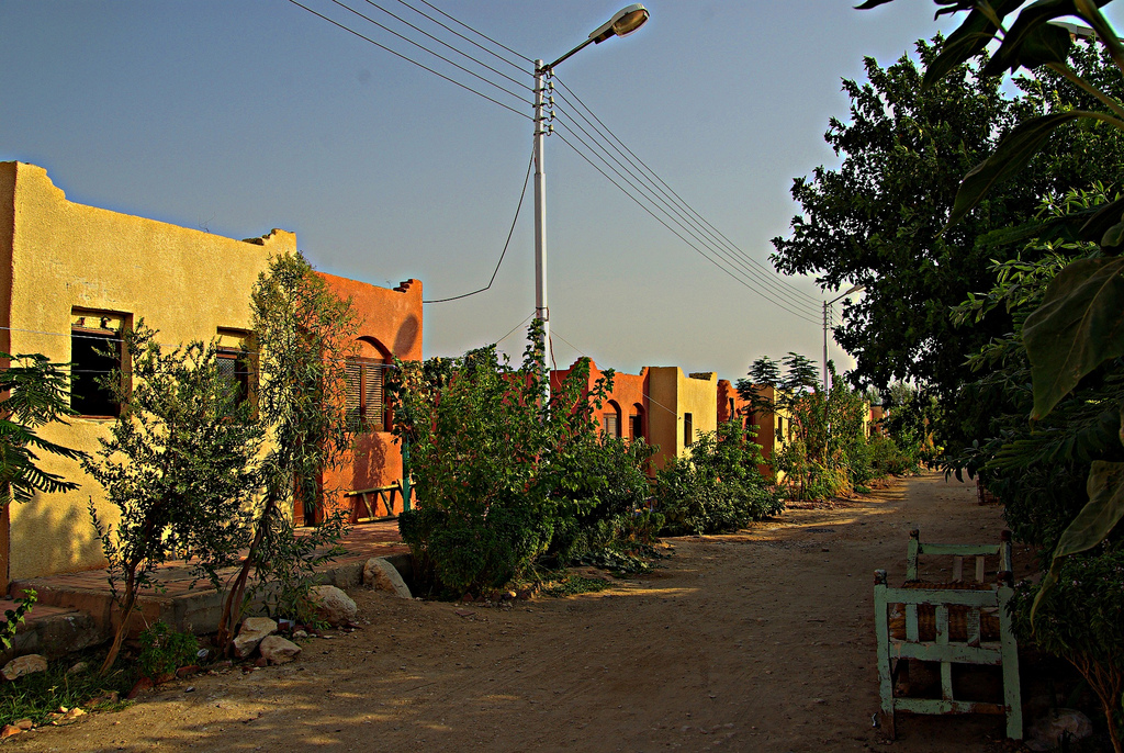 A view of New Gourna near Luxor in Egypt.